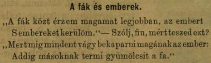 Poem of Székács József